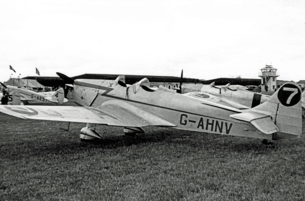 Wolverhampton (Pendeford) Airfield in 1950 showing hangars and control tower. Miles M.14A G-AHNV in the foreground.